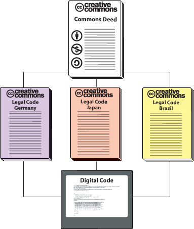 Porting a CC license.